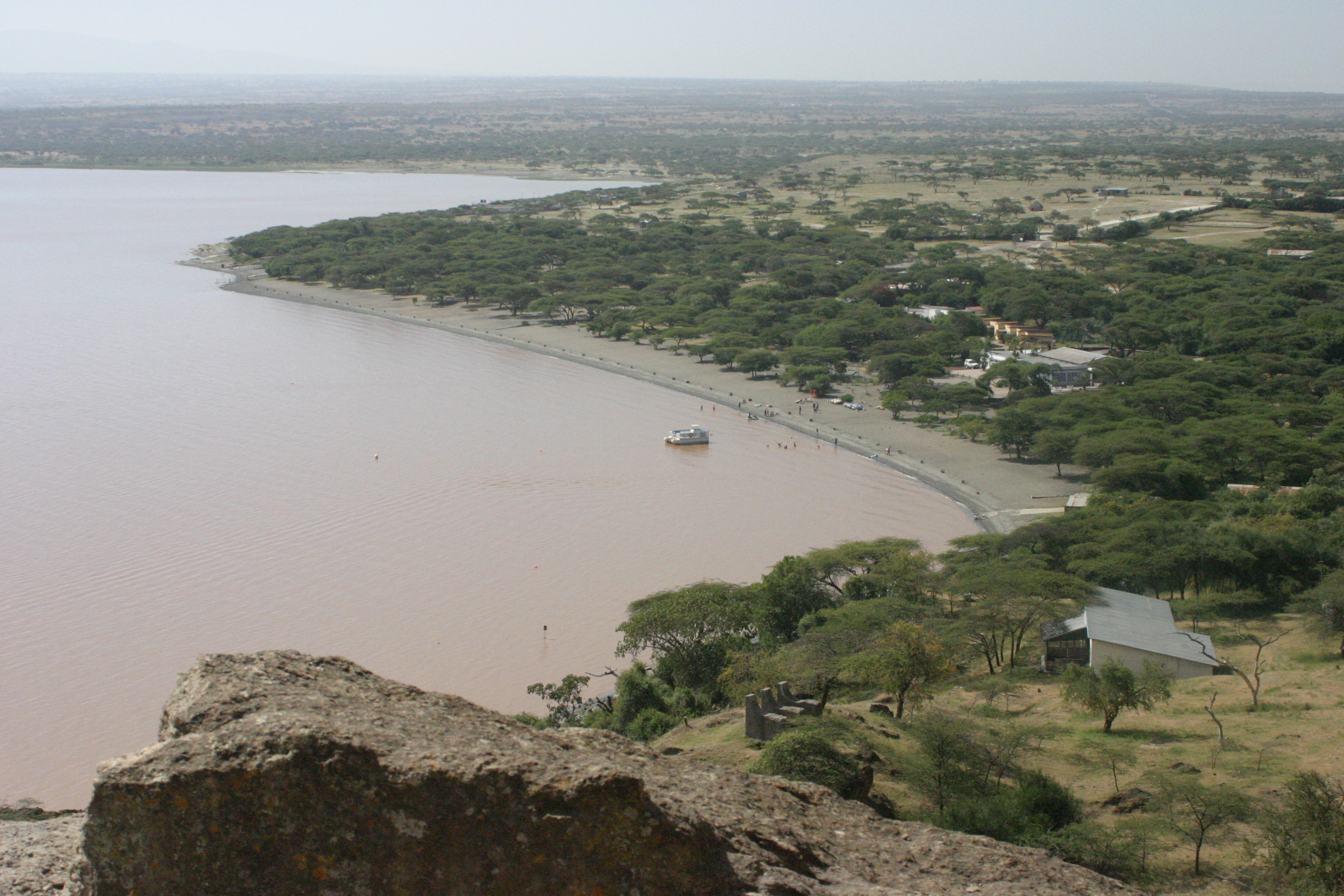 The Southwestern shore of Lake Langano, Ethiopia, 2004-10-29